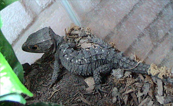 Photographer: User:Dawson